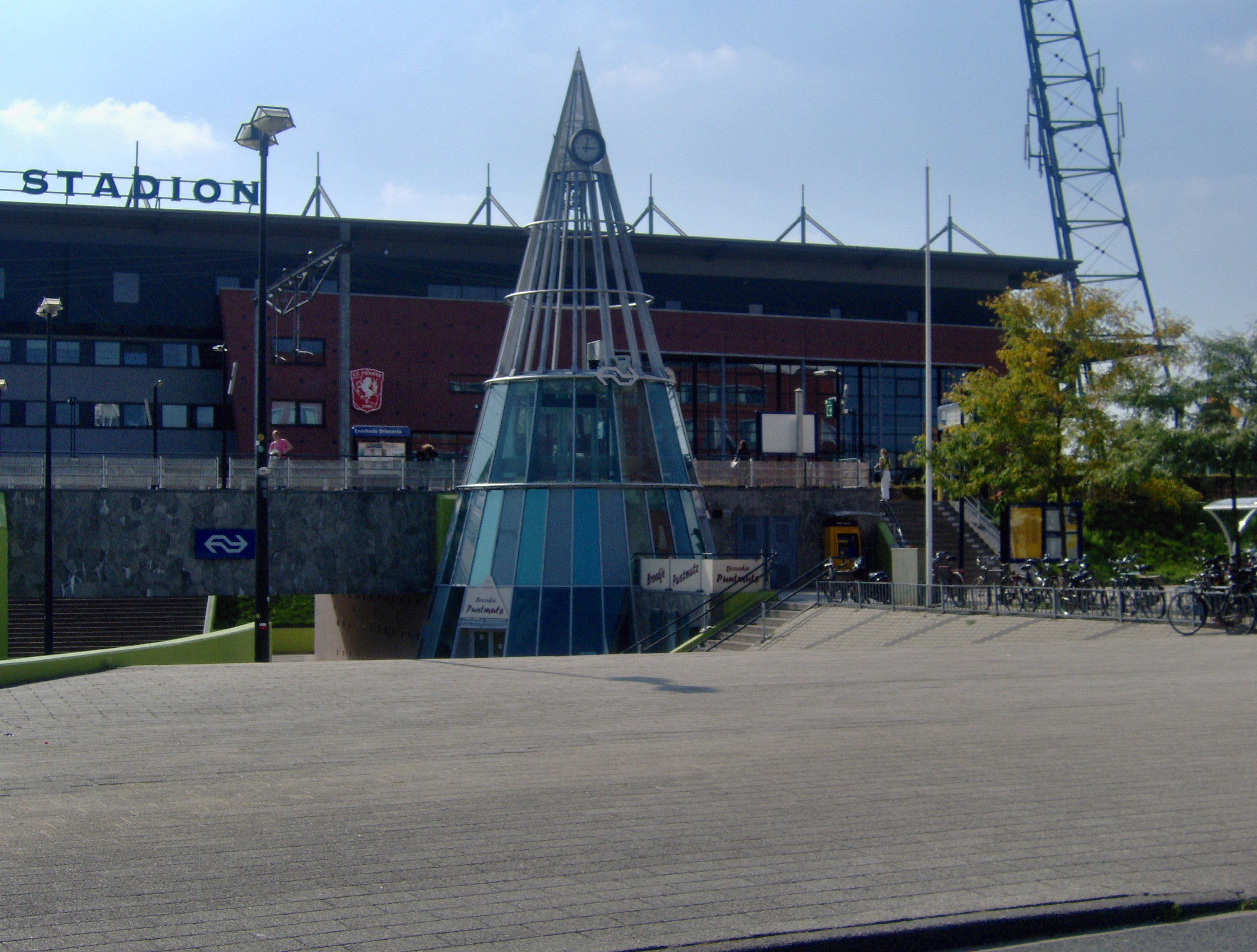 The Dutch railway station Enschede Drienerlo in Enschede, Netherlands